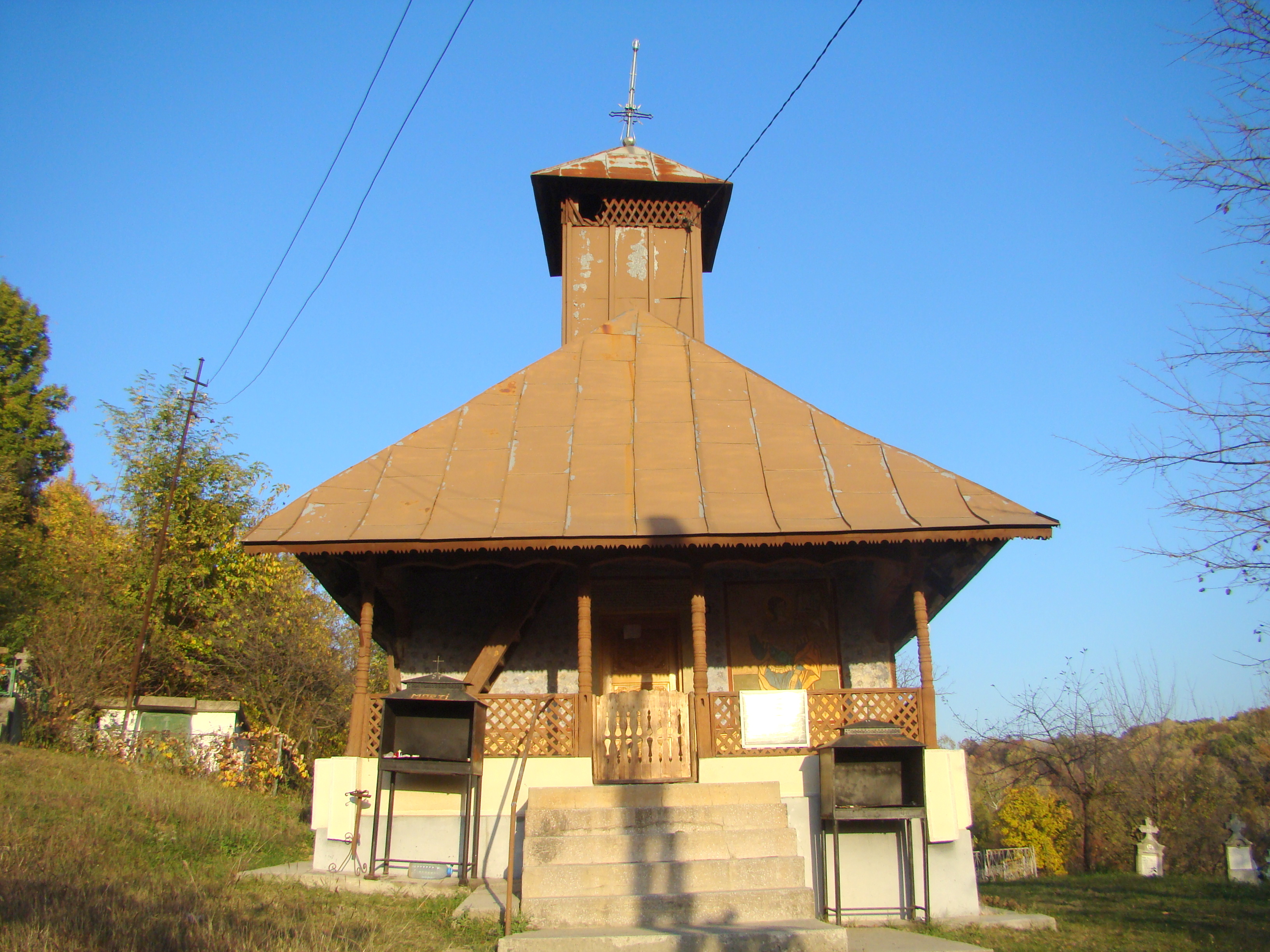 Wooden church in Horăști, Gorj county, Romania